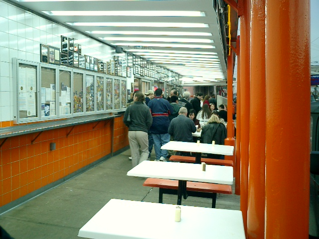 Eating area of Geno's Steaks in Philadelphia